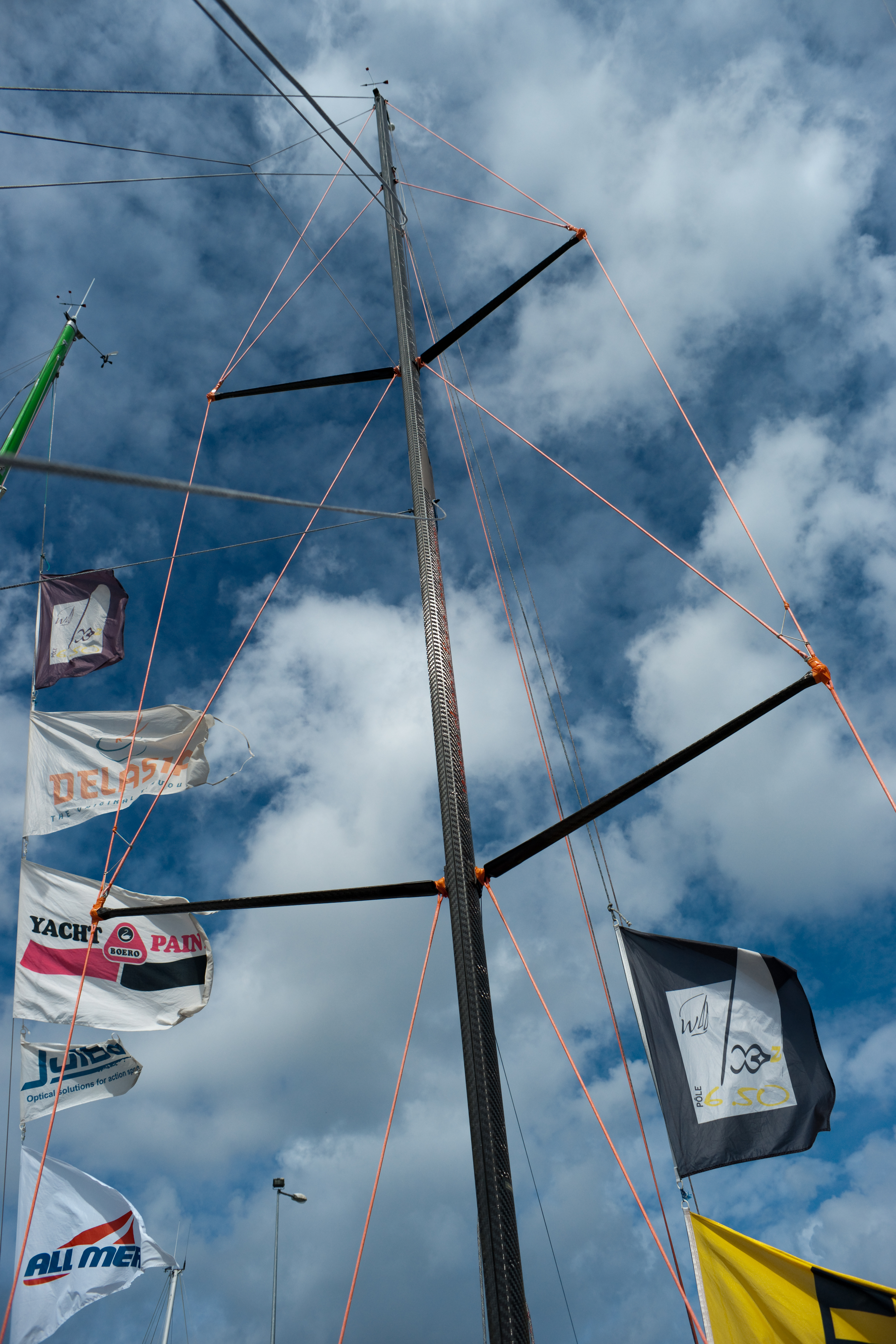 Mast of a Mini 6.50